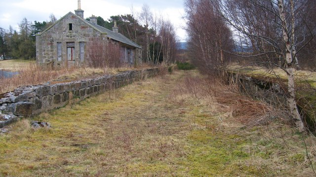 Grantown on Spey East Railway Station. This is all that remains of Grantown on Spey East railway station which closed to passenger services in October 1965. The railway line closed completely, after the loss of the freight service, in November 1968. 775966